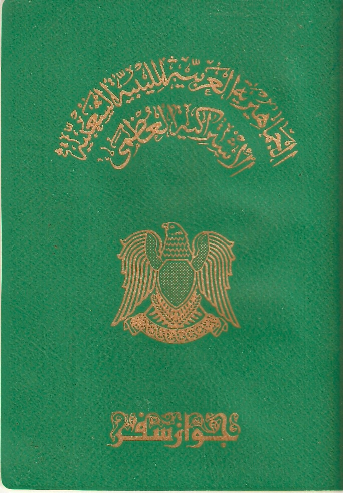 Passport of Libyan Arab Jamahiriya, issued in 1991.